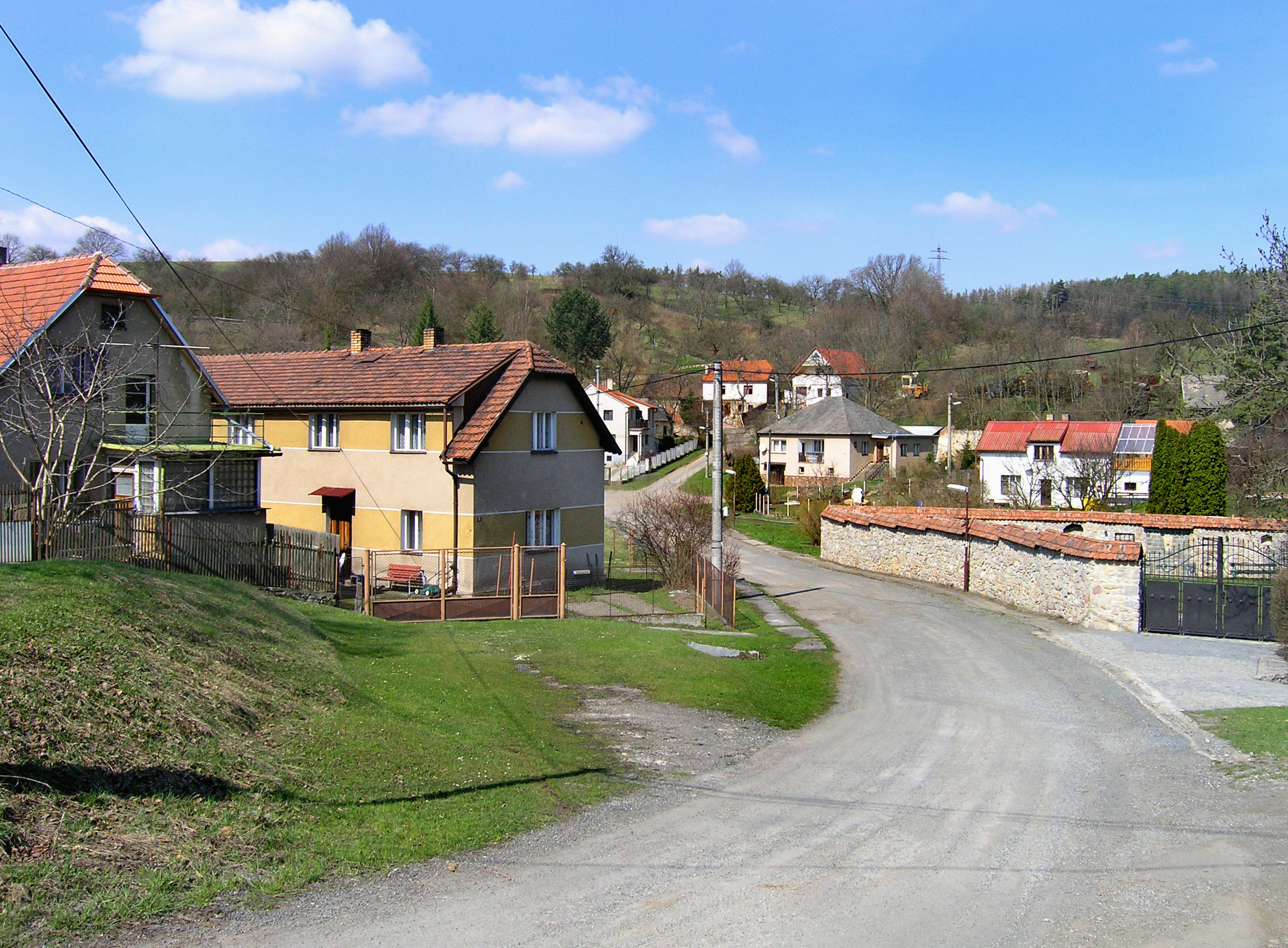 North part of Malé Přílepy, part of Chýňava village, Czech Republic